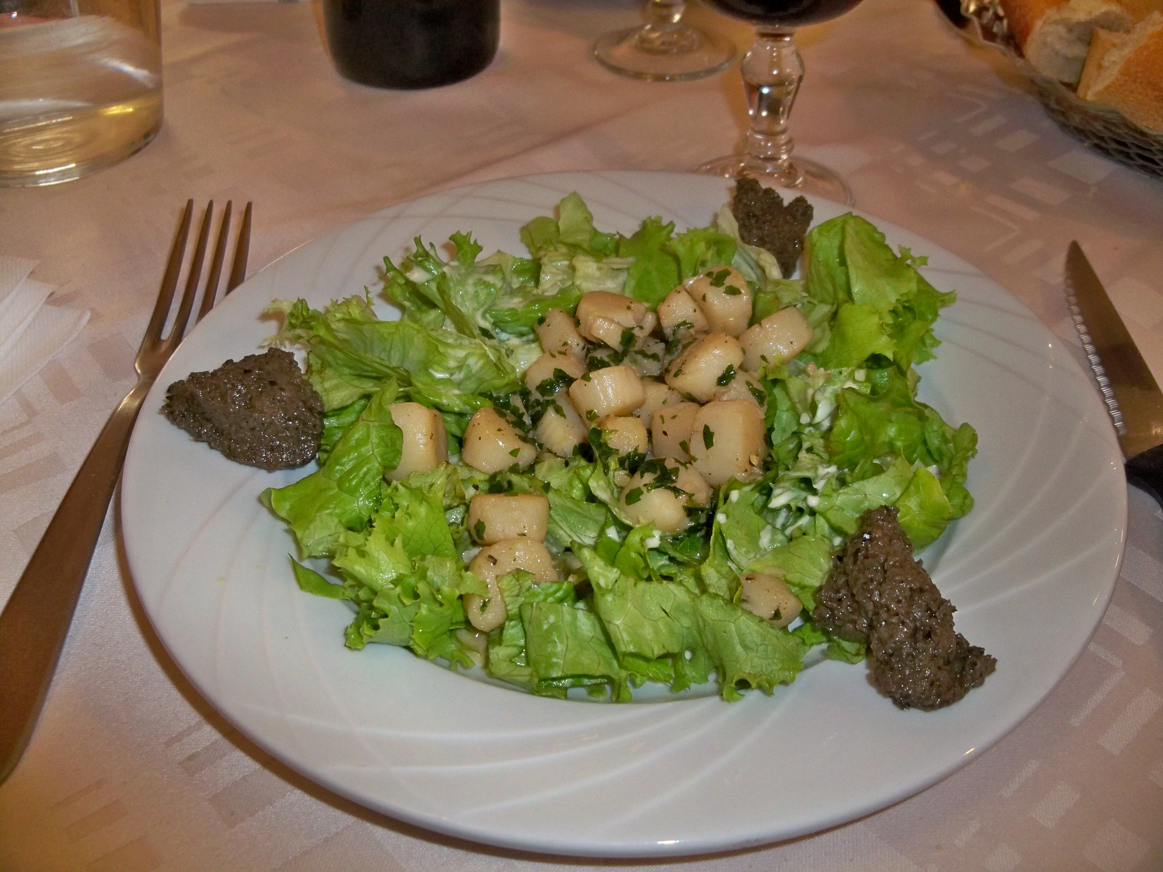 scallop salad